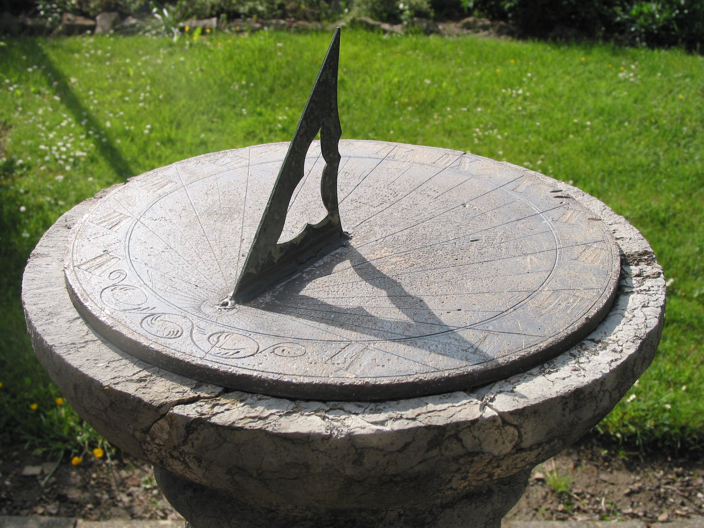 Amonines (Belgium), Home Philippin - The sundial.